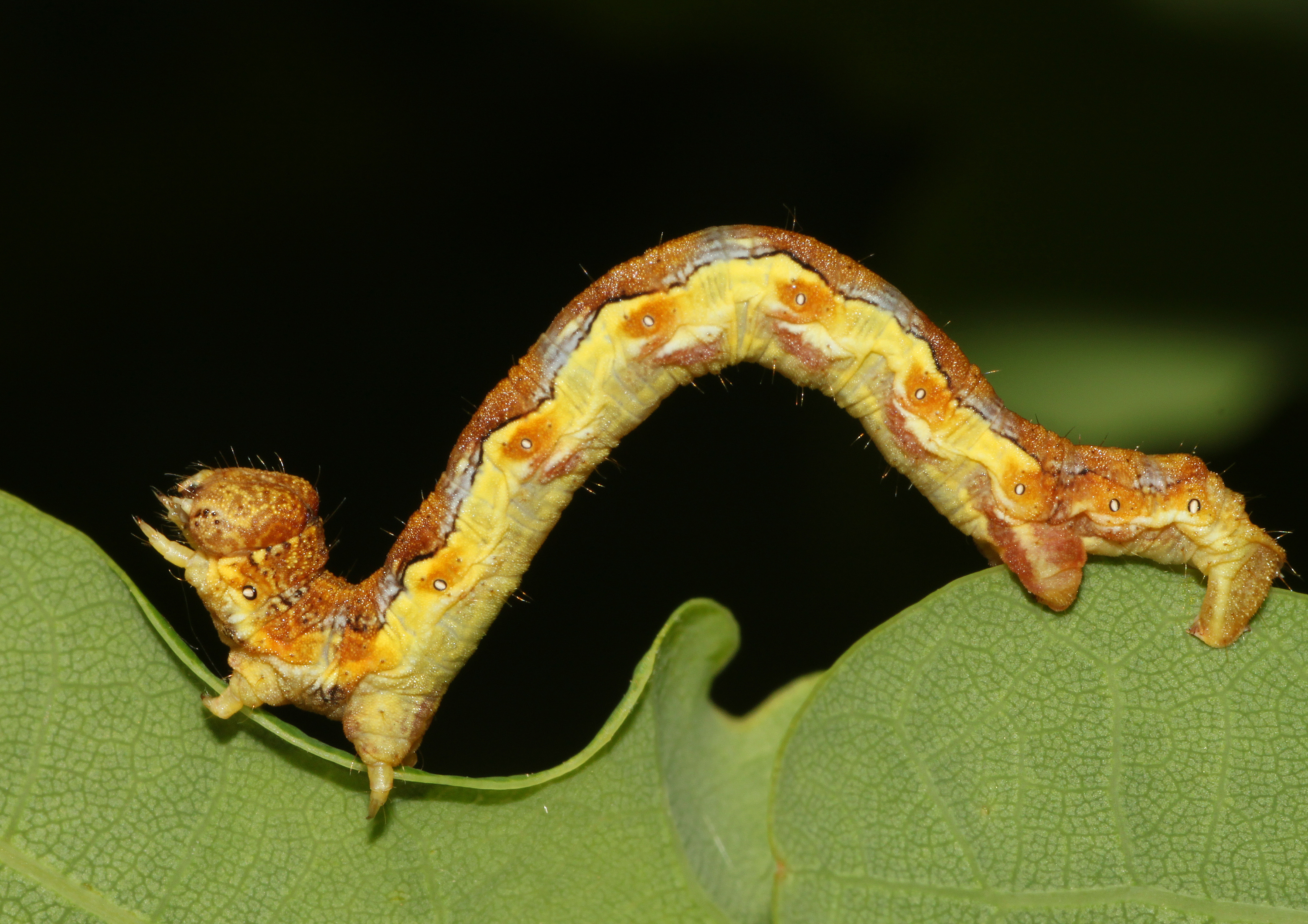 Mottled Umber (caterpillar), Erannis defoliaria, Family: Geometridae, Location: Germany, Ochsenwang